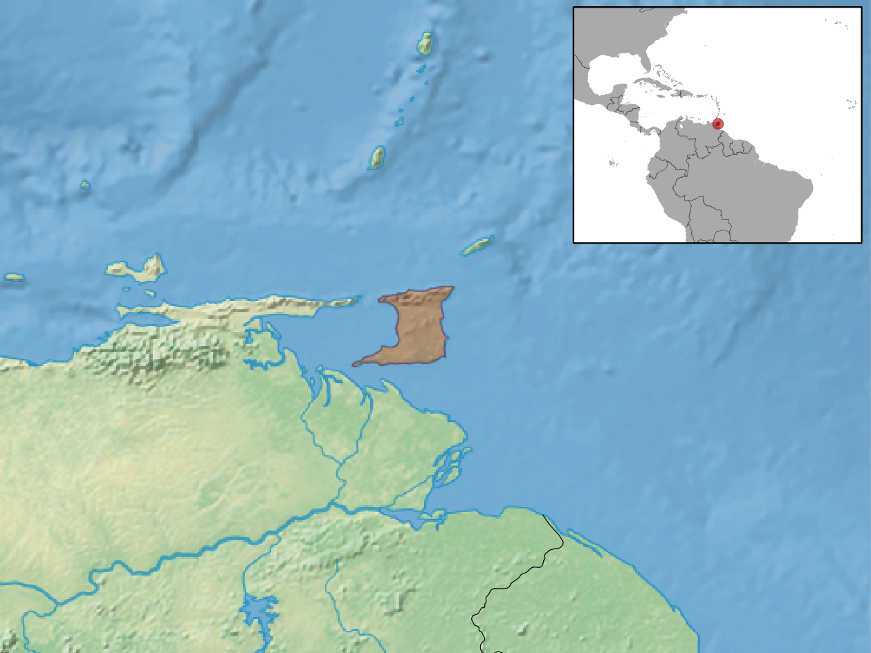 geographic distribution of Proechimys trinitatus